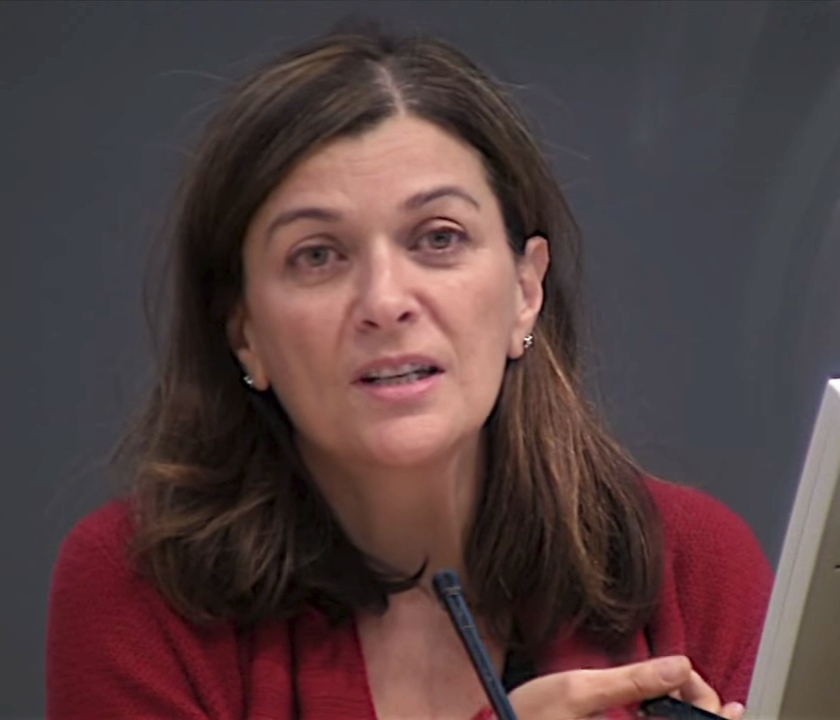 Economist and Greek government minister Rania Antonopoulos at a 2013 lecture at Columbia University.